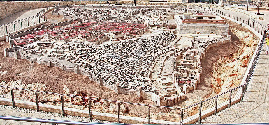 The view of Ancient Jerusalem. Model in the Israel Museum.